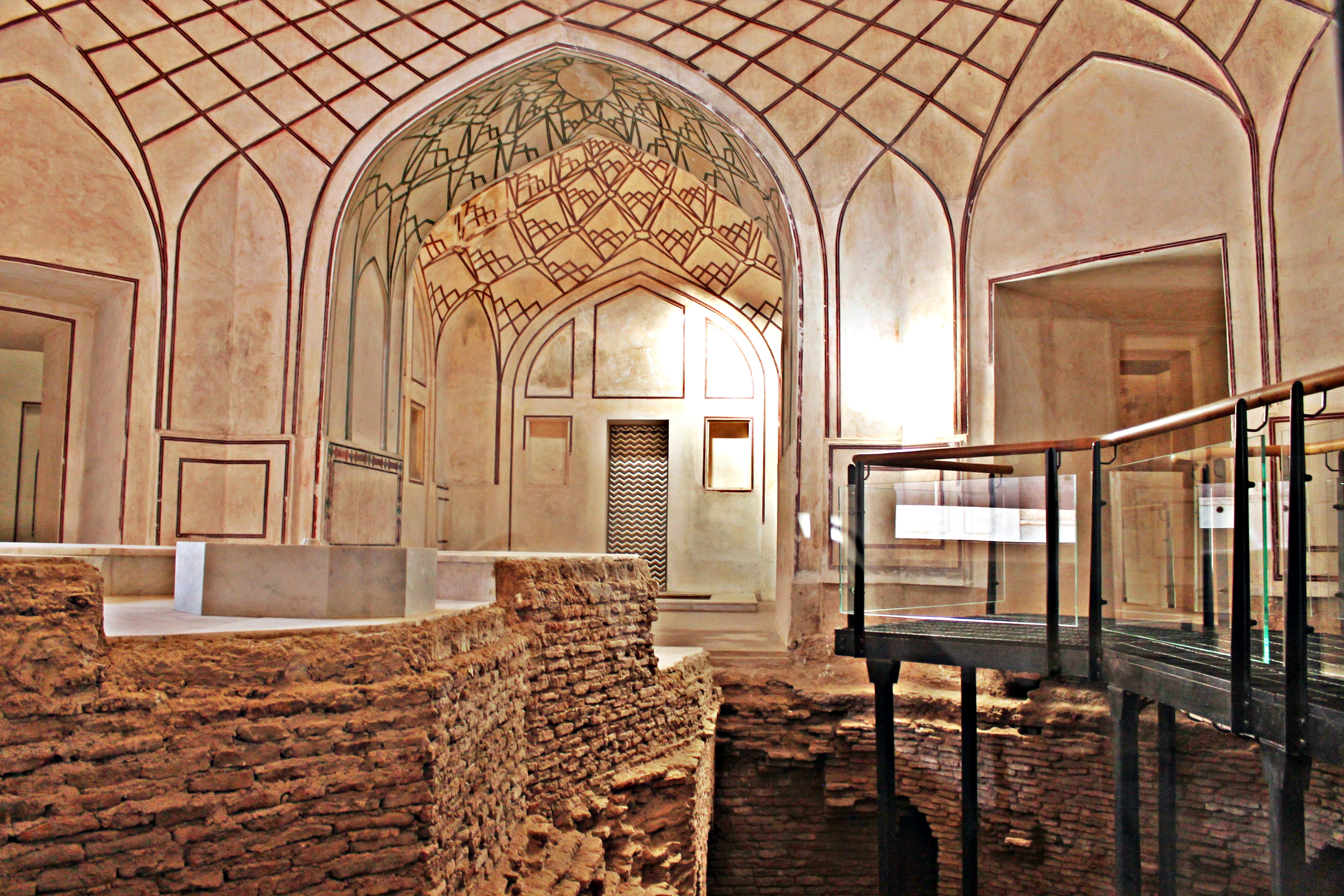 Wazir Khan's hammams This is a photo of a monument in Pakistan identified as the PB-99